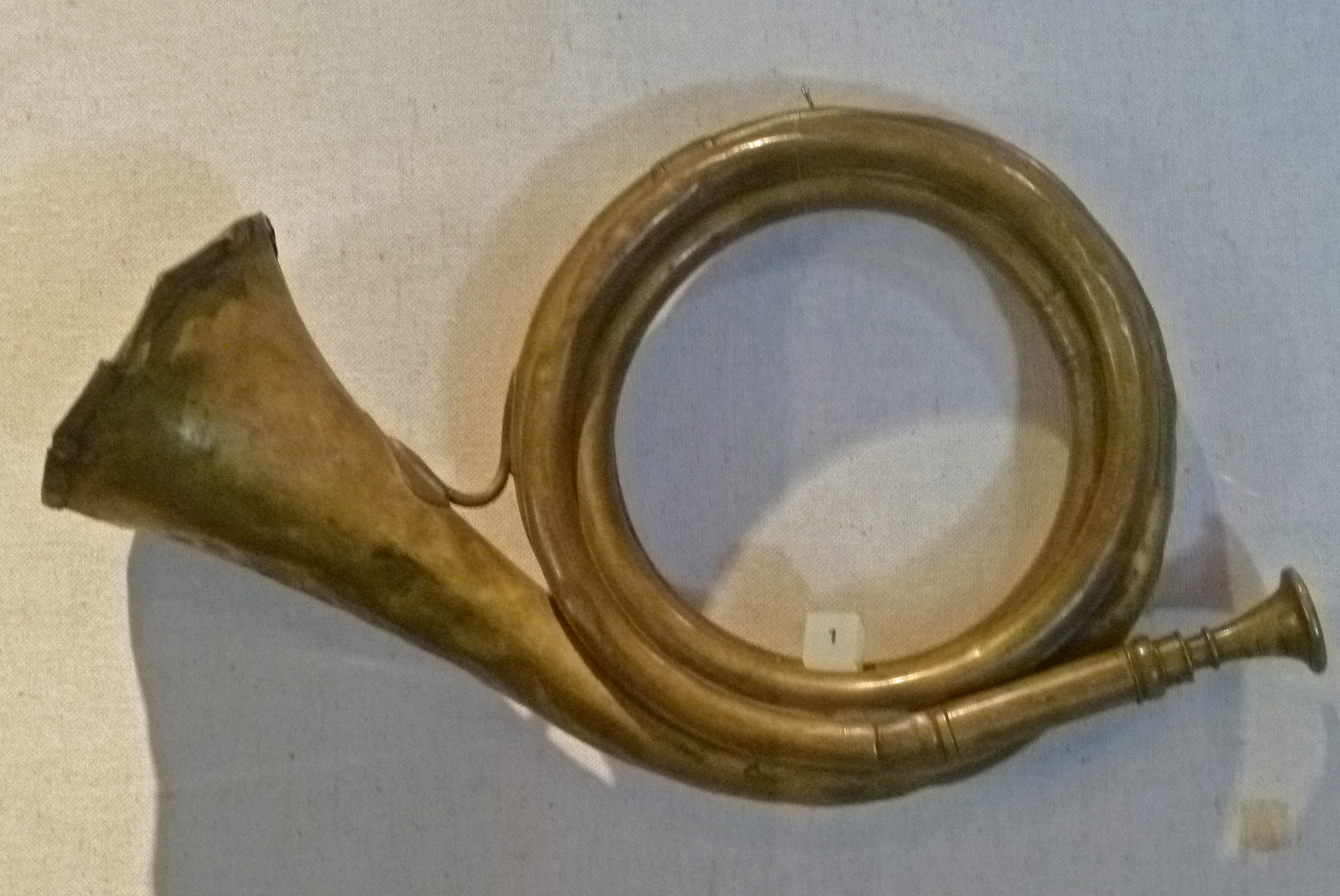 Post horn (19th century); exhibition in the Spandau citadel, Spandau, Germany